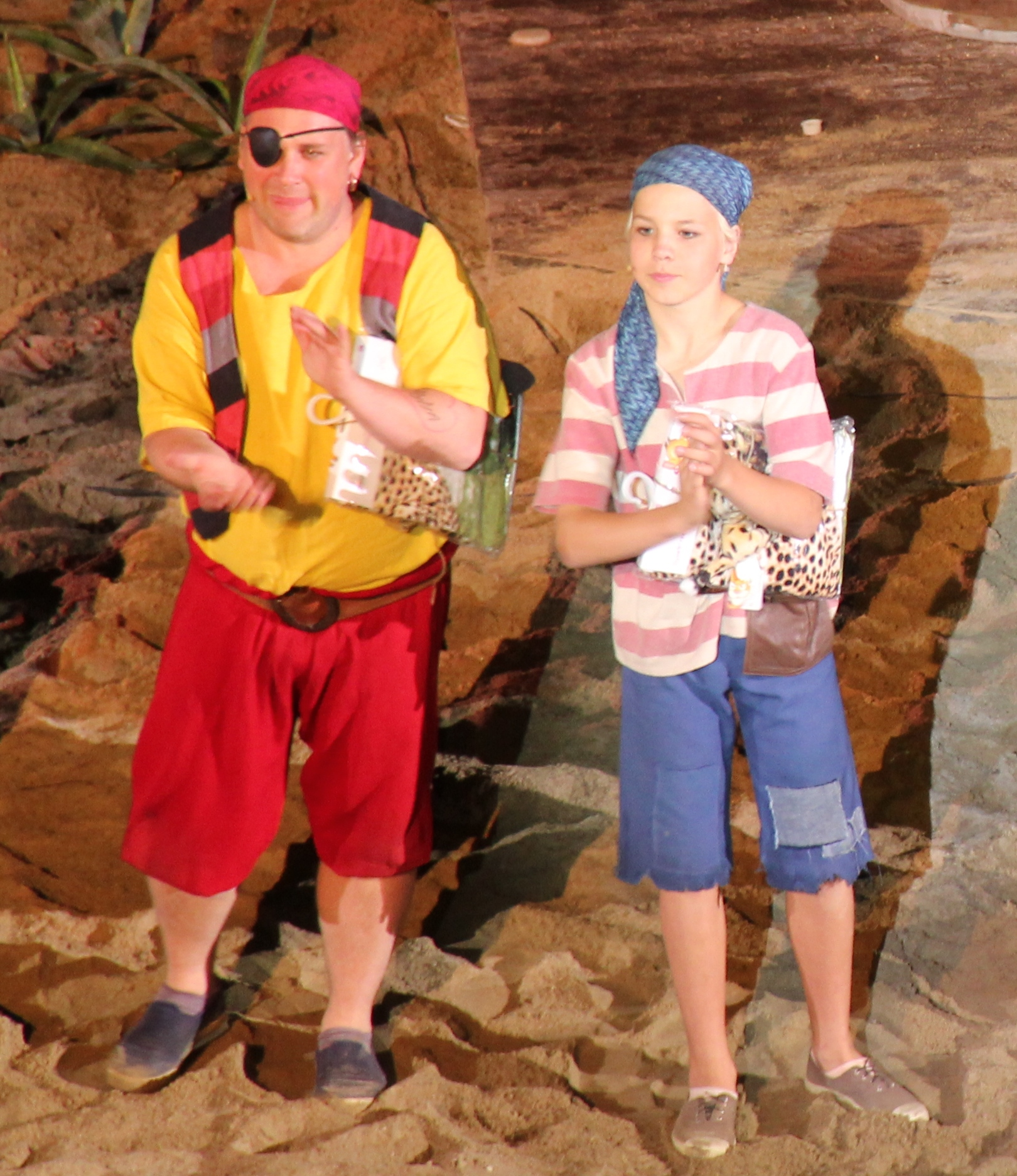 Paul Fjell Gundersen as Pinky, 2016. With Pelle Pirat.